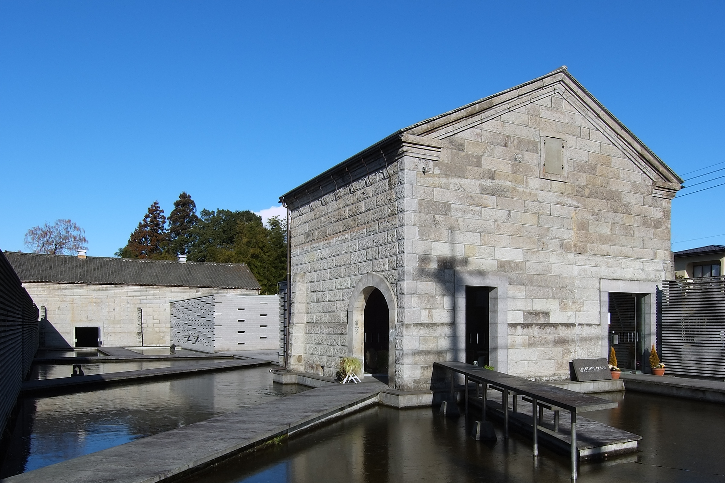 STONE PLAZA - Nasu Ashino stone museum, at Nasu-machi Tochigi Japan, design by Kengo Kuma in 2000.